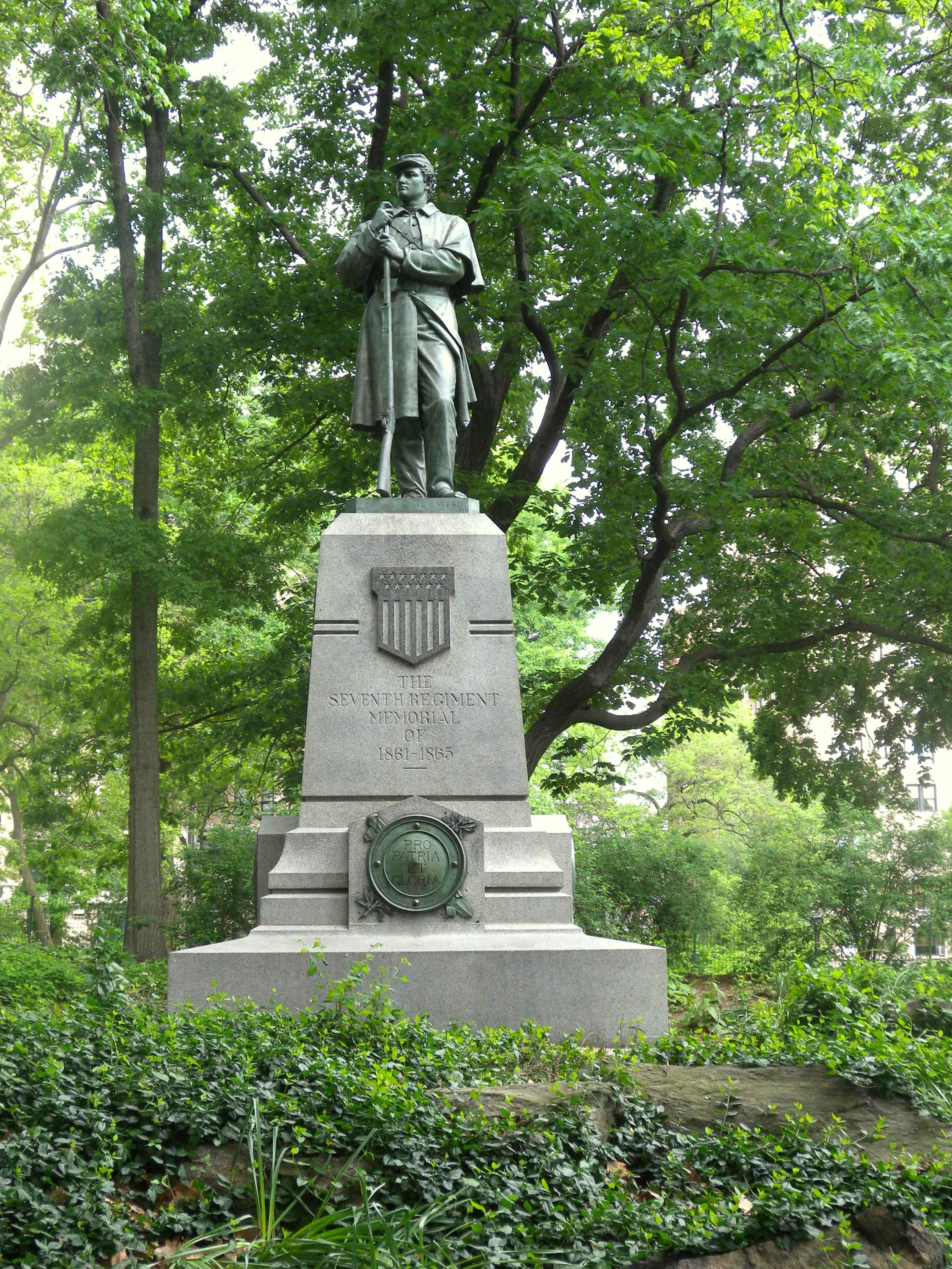 Looking west at 7th Rgt Memorial on a cloudy spring day.